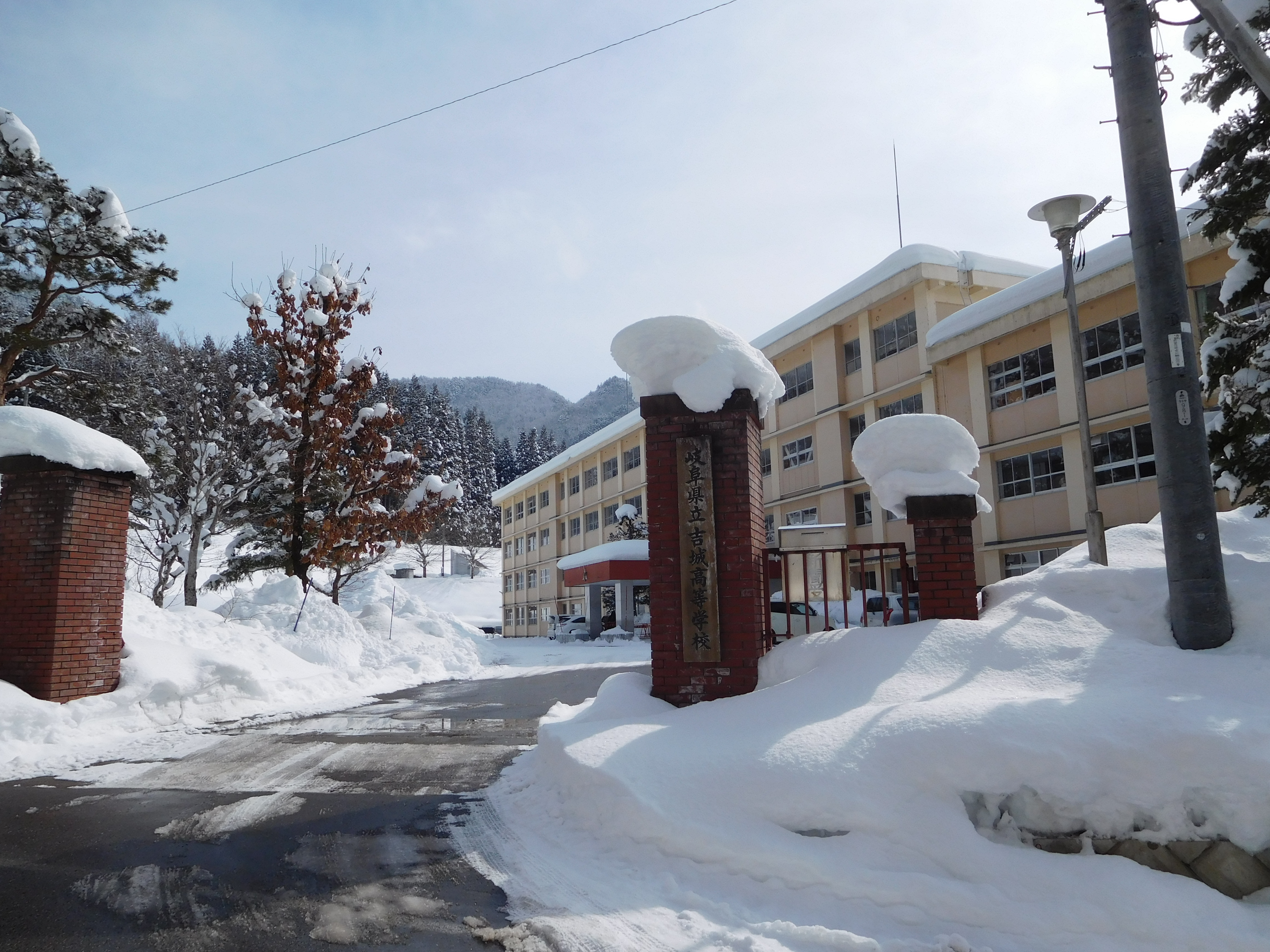 This is a school gate of Gifu prefectural Yoshiki high school in Hida, Gifu, Japan.